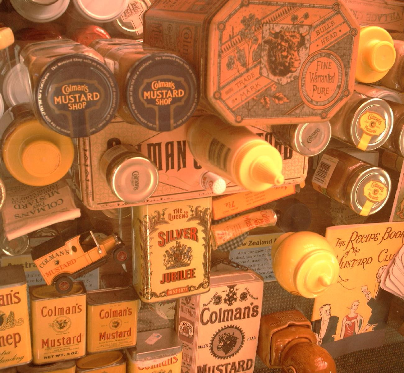 Photo I took 2007-01-19 of a display at the Mustard Museum in Mount Horeb, Wisconsin. CC & GFDL.